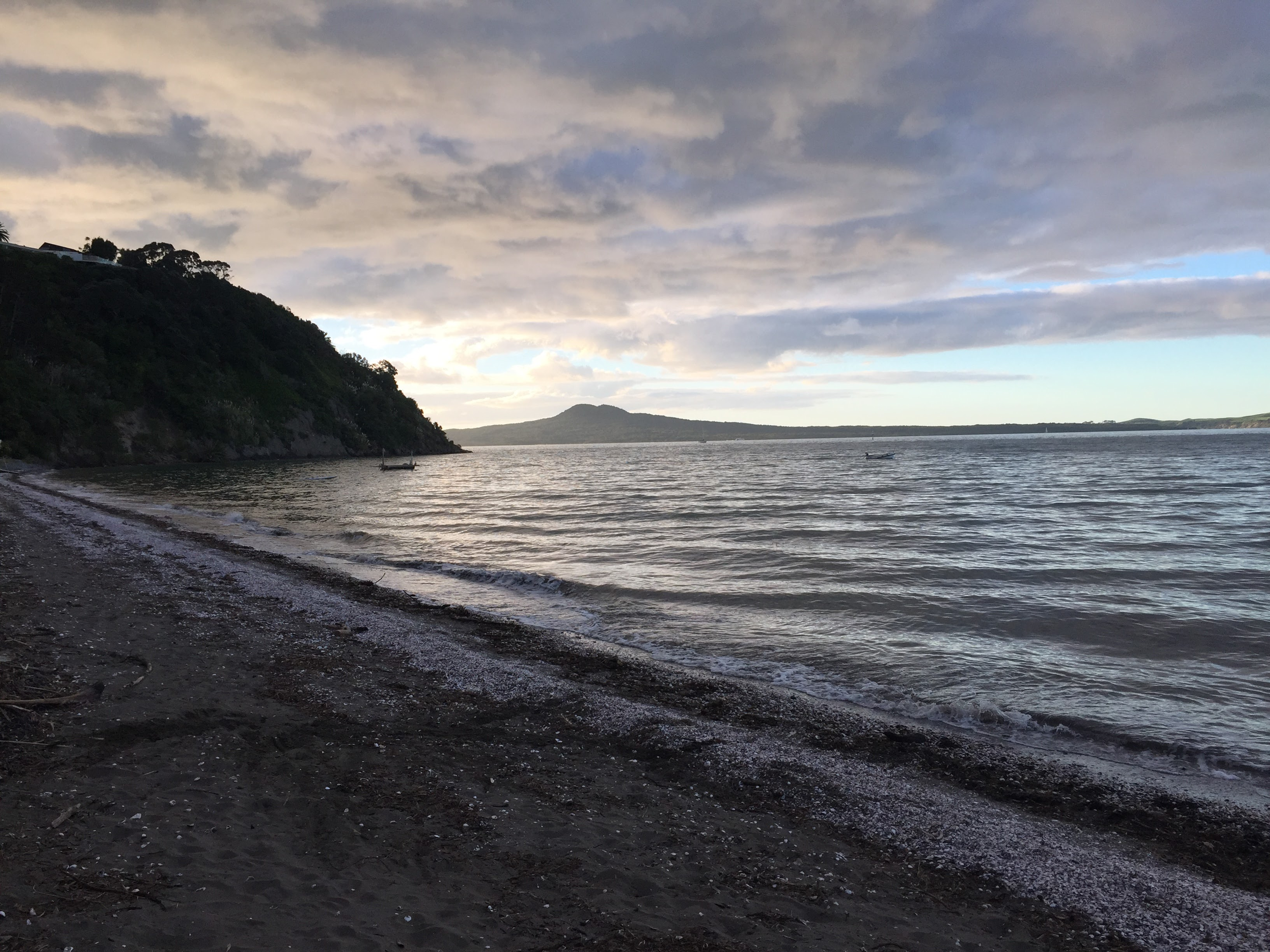 Taken from the south end of the bay, looking towards Rangitoto. West Tamaki Head is on the left hand side.